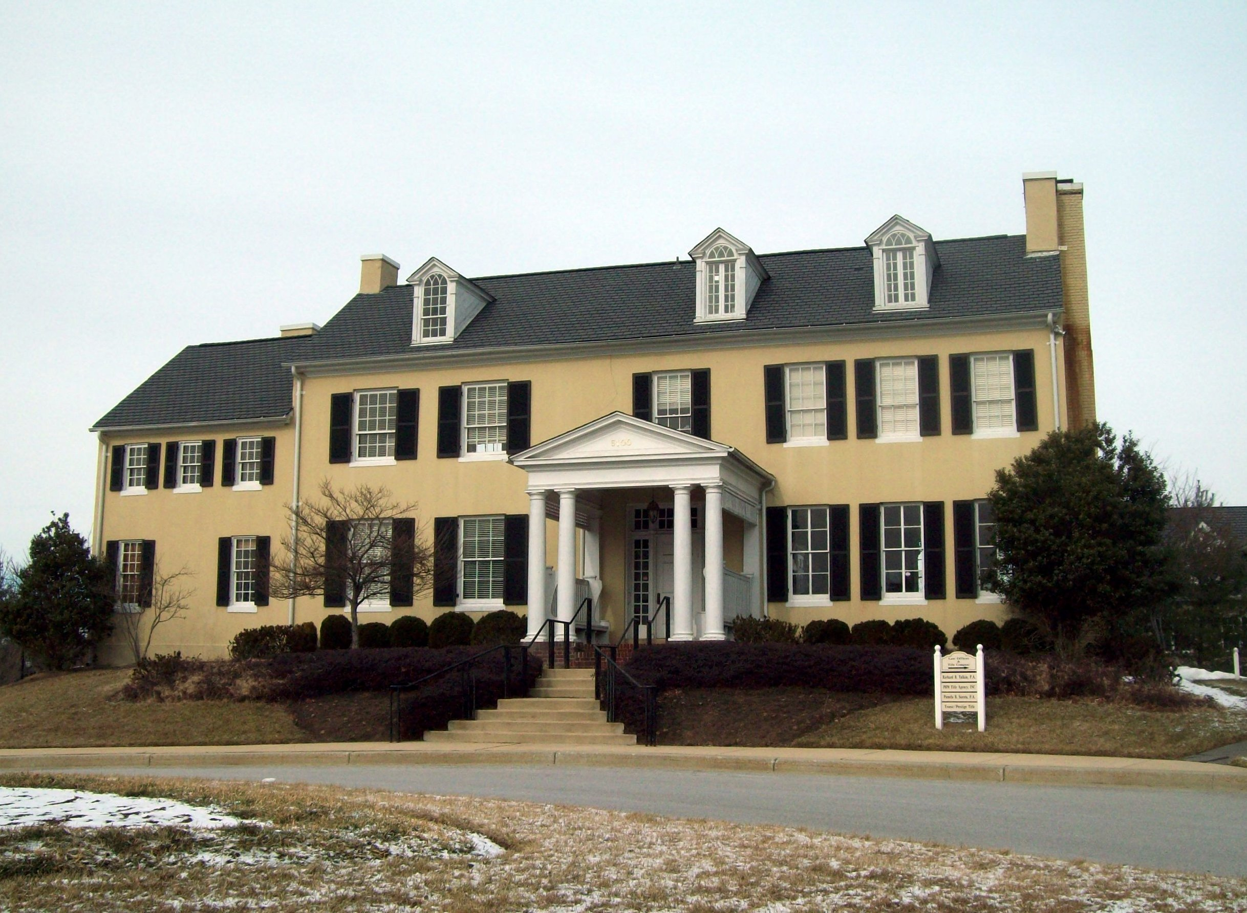 Dorsey Hall, Ellicott City, Maryland, January 2011